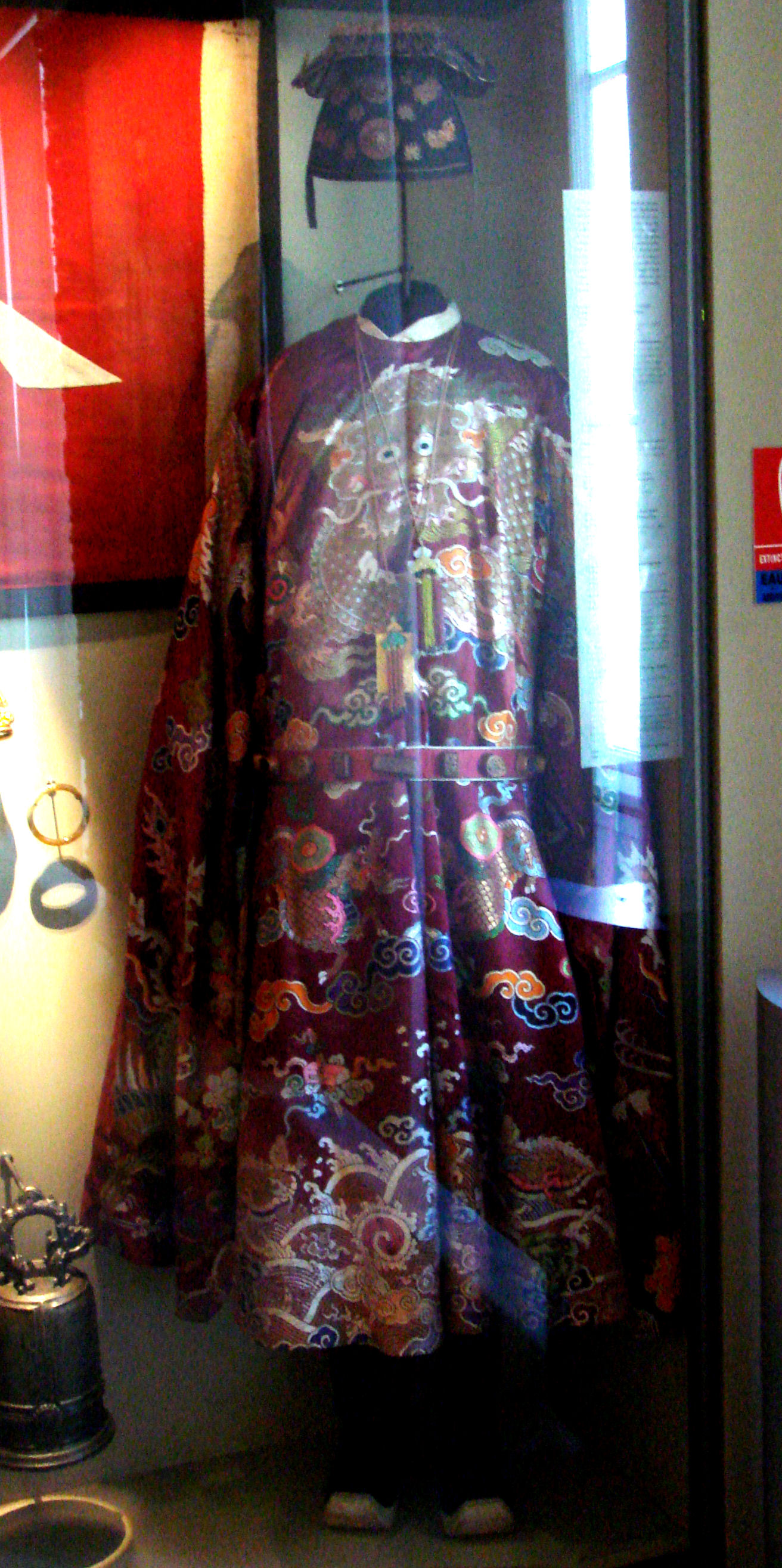 Ceremonial dress of Marshal Nguyen Tri Phuong taken as a trophy by Garnier in the capture of Hanoi in 1873.